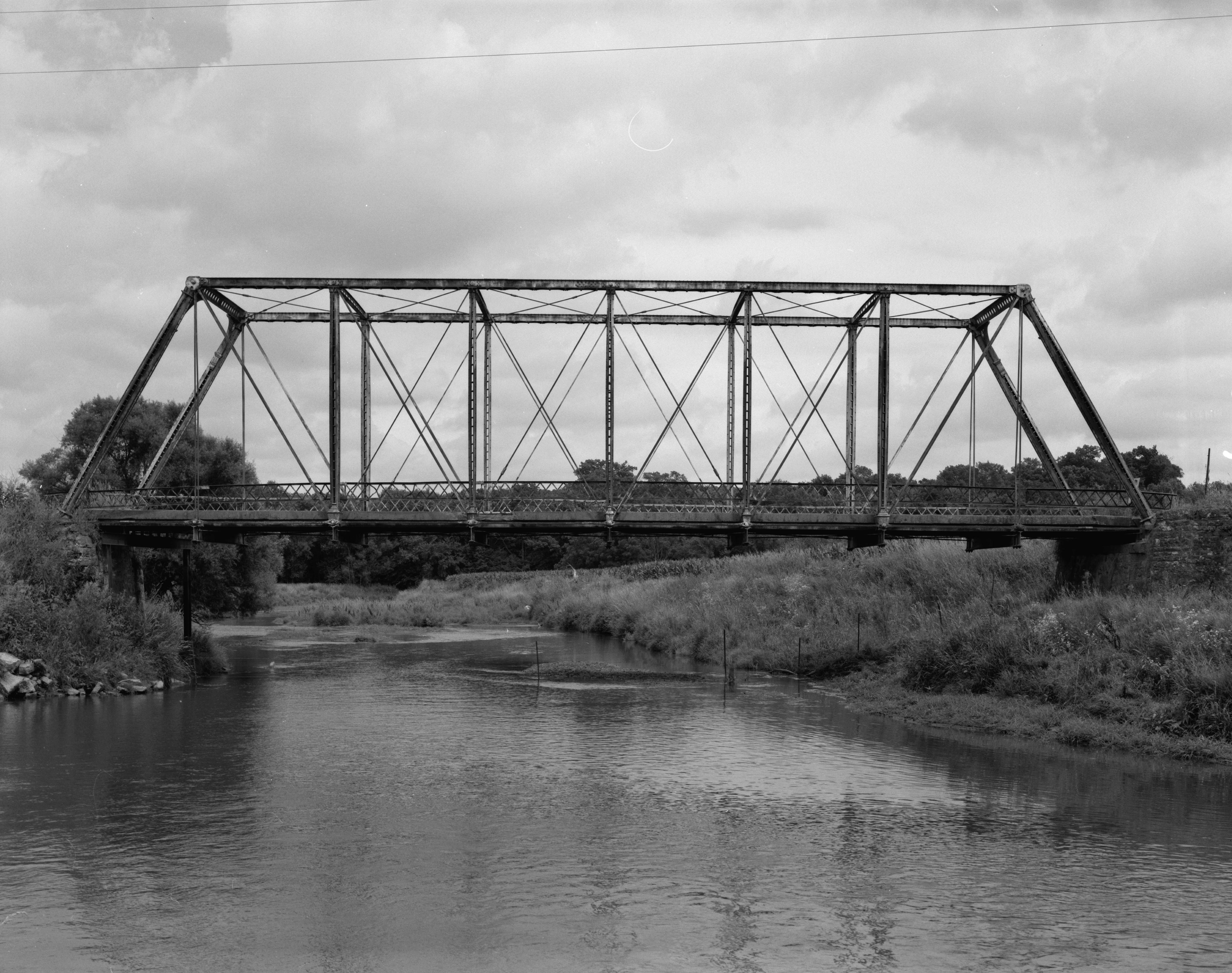 Western (upsteam) side of the White Water Creek Bridge, which carries Whitewater Road over White Water Creek west of Bernard in Whitewater Township, Dubuque County, Iowa, United States. Built in 1868, the pinned Pratt through truss bridge is listed on the National Register of Historic Places.